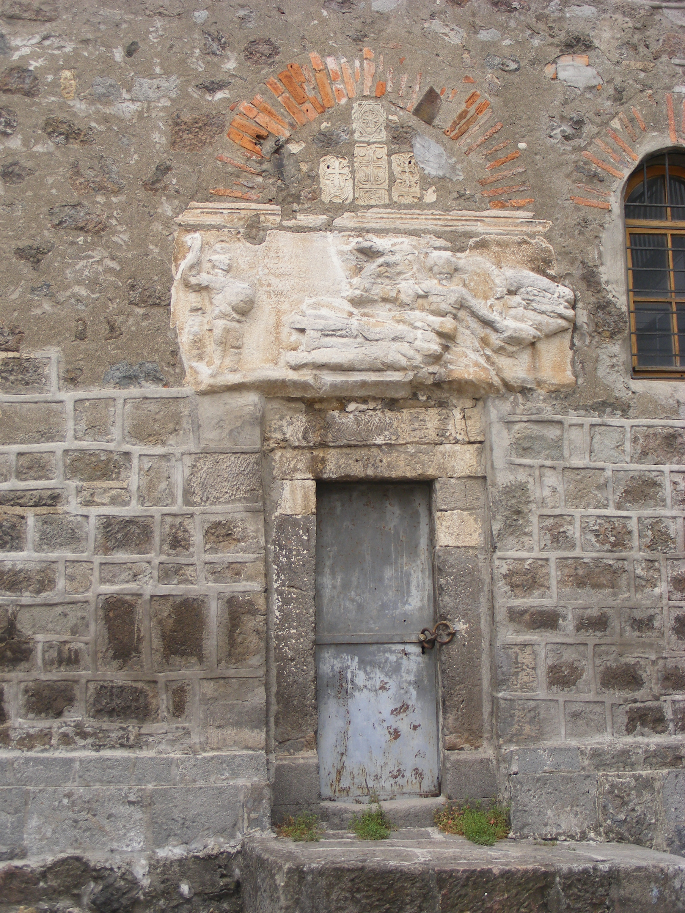 Door and decor of Hagia Anna church in Trabzon